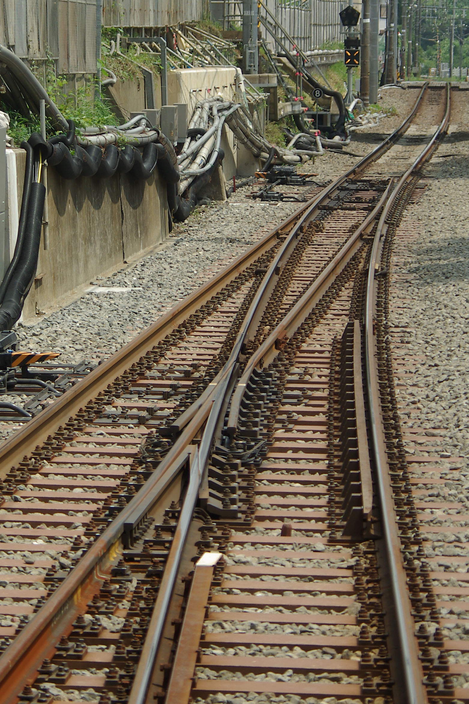 A turnout with a swingnose crossing near Kaminoge Station on the Tokyu Oimachi Line